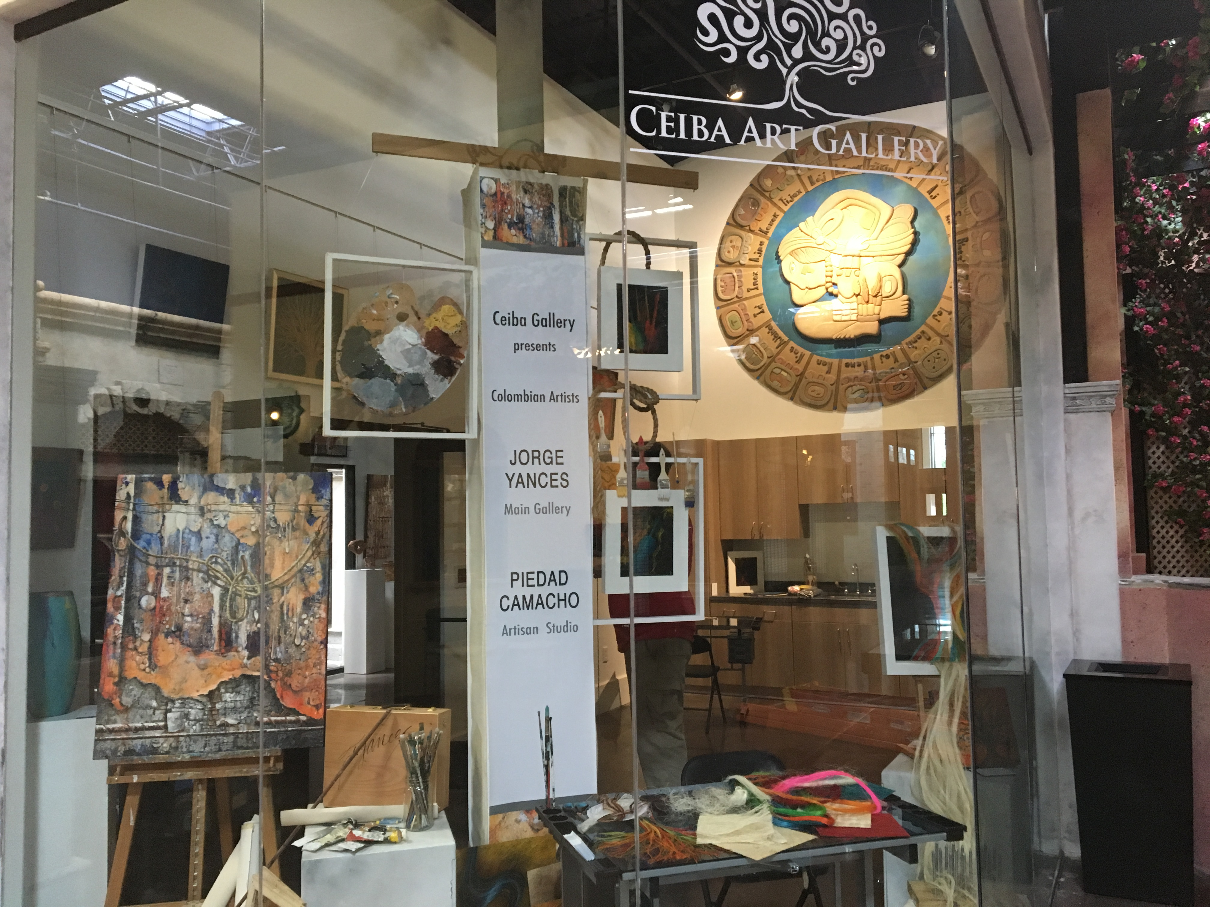 The Ceiba Art Gallery is located inside of Plaza Mariachi Music City